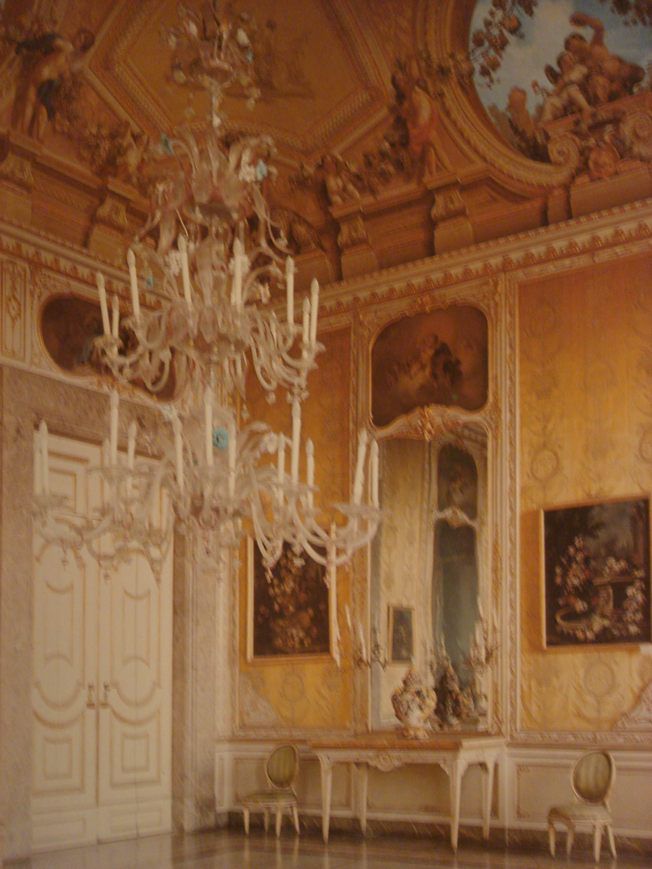 Photograoh of the autum room in the Old appartament in the Royal Palace of Caserta.